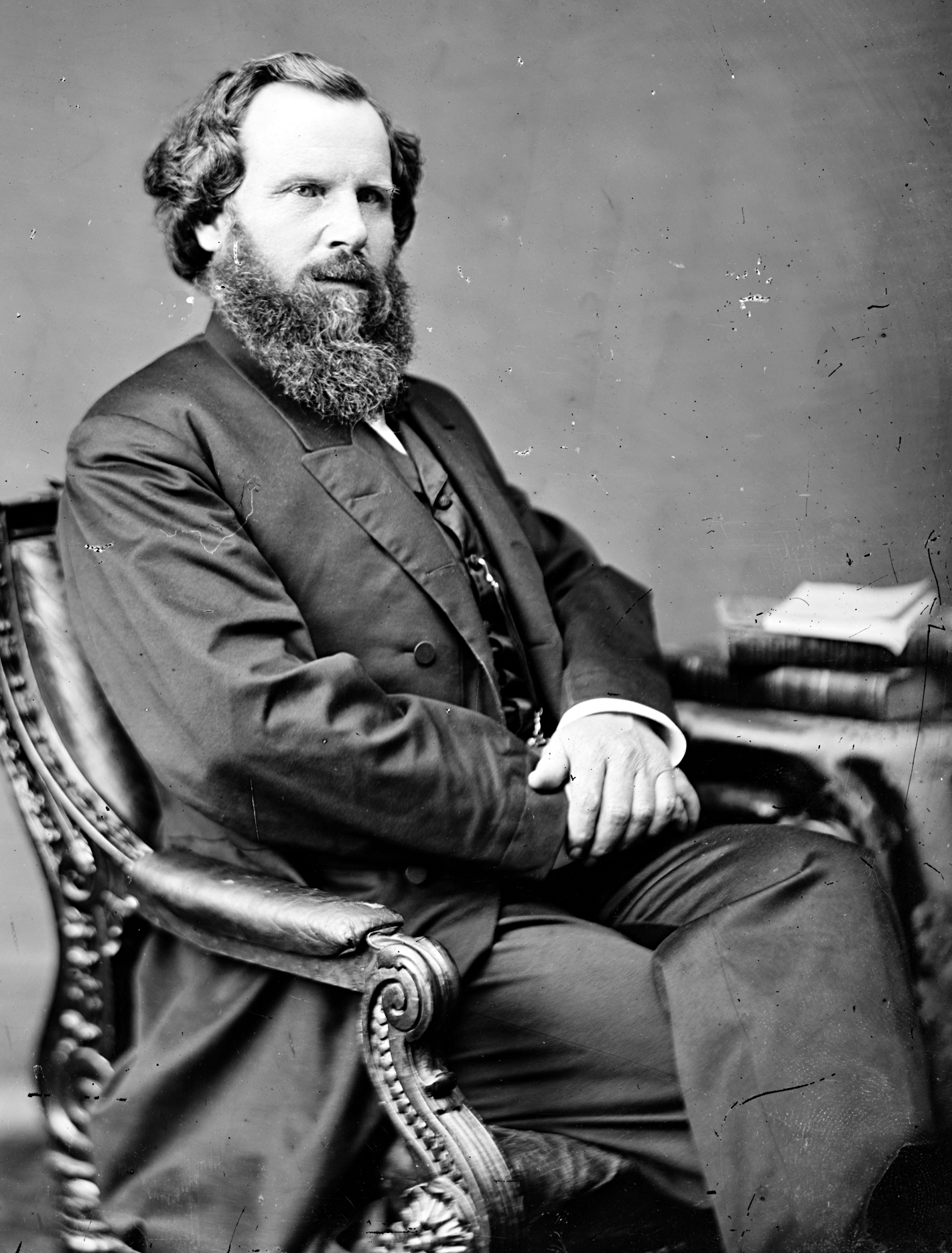 Rowland E. Trowbridge, US Representative from Michigan